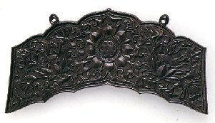 Gilt bronze Buddhist ritual gong with lotus flower design (金銅蓮花文磬, kondō rengemon kei)